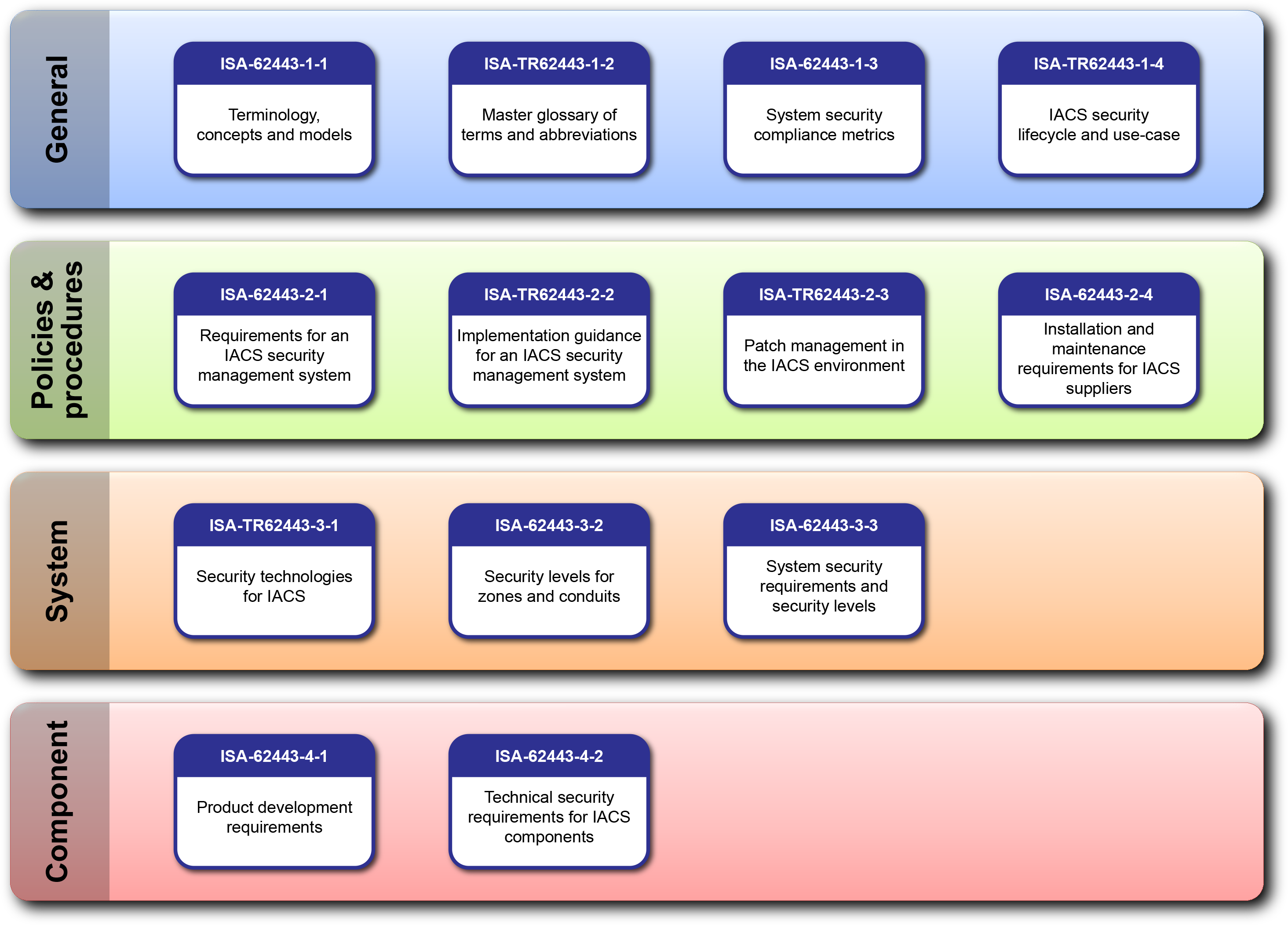 2012 proposed set of documents contained in the ISA-62443 series planned, under development, and published by the ISA99 committee in cooperation with IEC TC65/WG10.